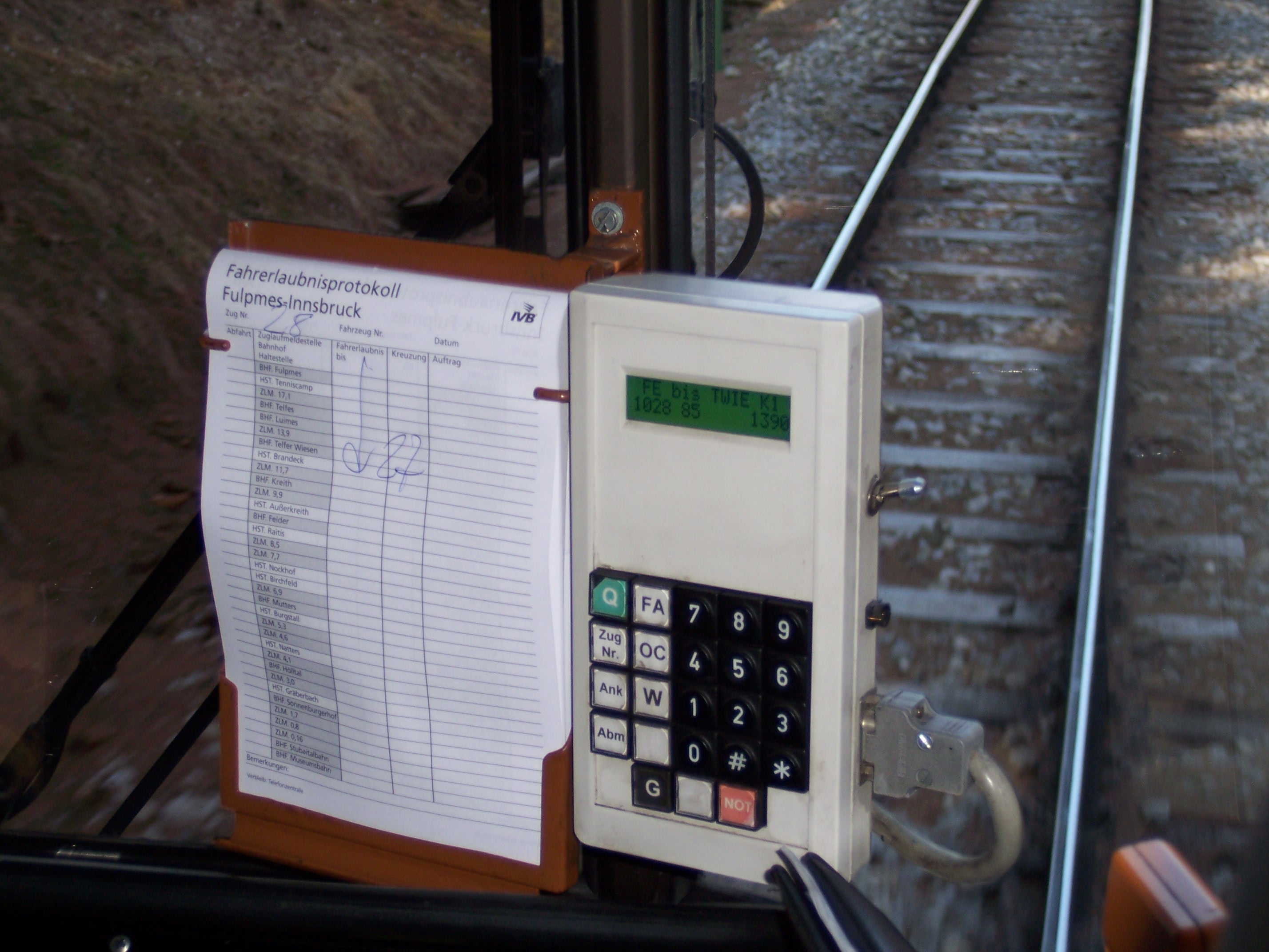 control unit of ATC in the cab of the motor car of the Stubaitalbahn